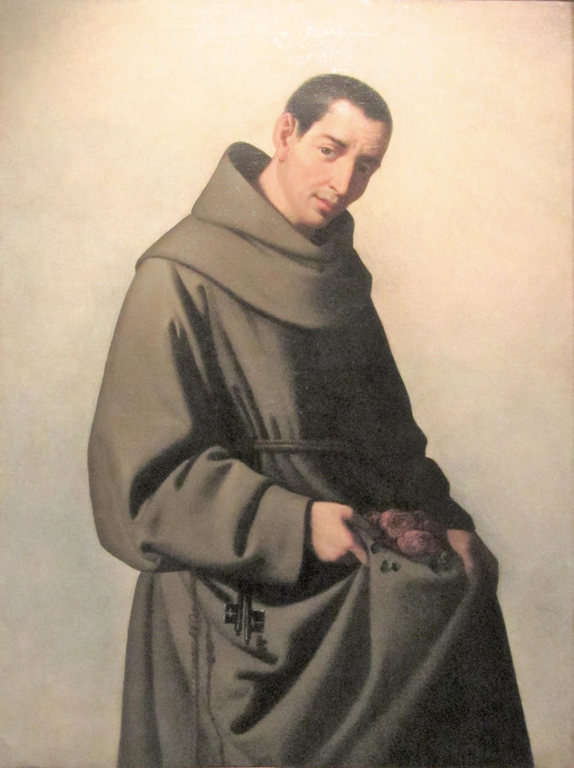 Didacus of Alcalá